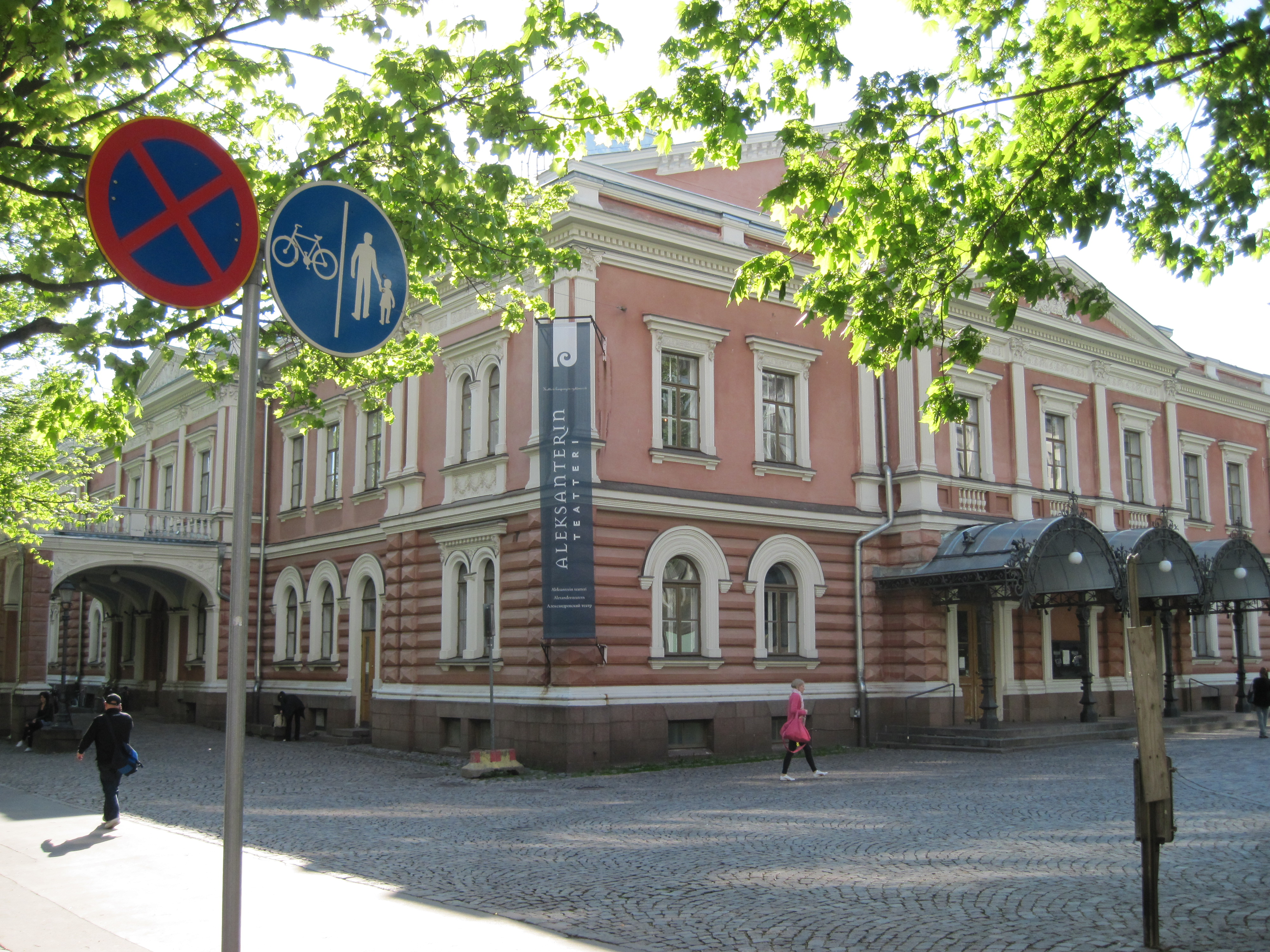 Alexander Theater, Helsinki